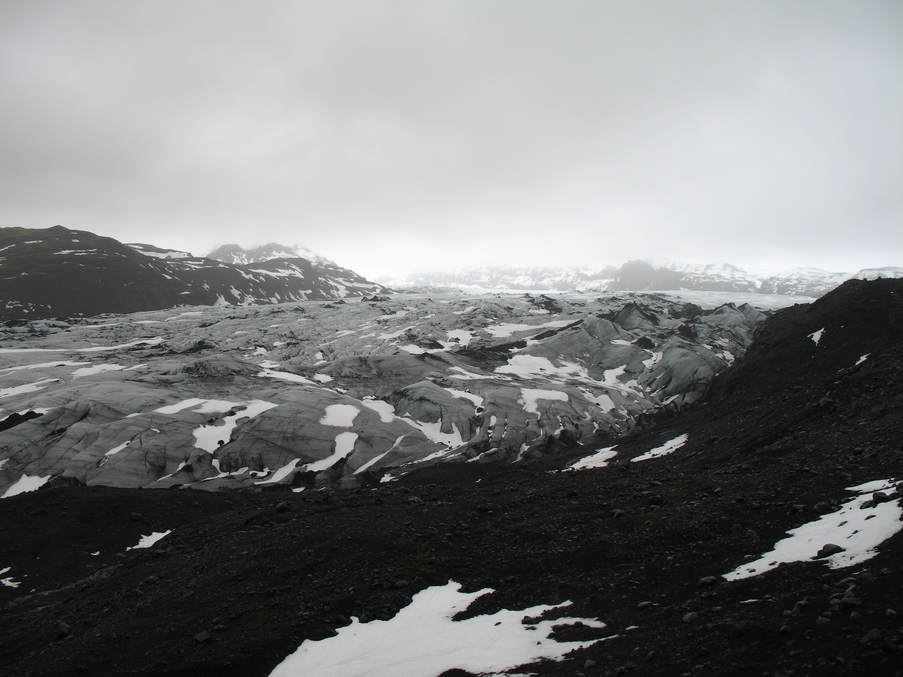 The glacier Solheimajokull of Southern Iceland, photographed in March 2007.